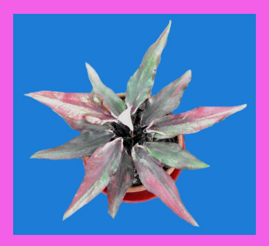 phi